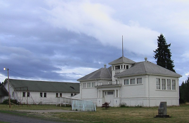 Bethel Church (formerly Bethel College), northwest of Salem, Oregon; looking southeast from driveway. The building in the rear is the former school's gymnasium/auditorium.